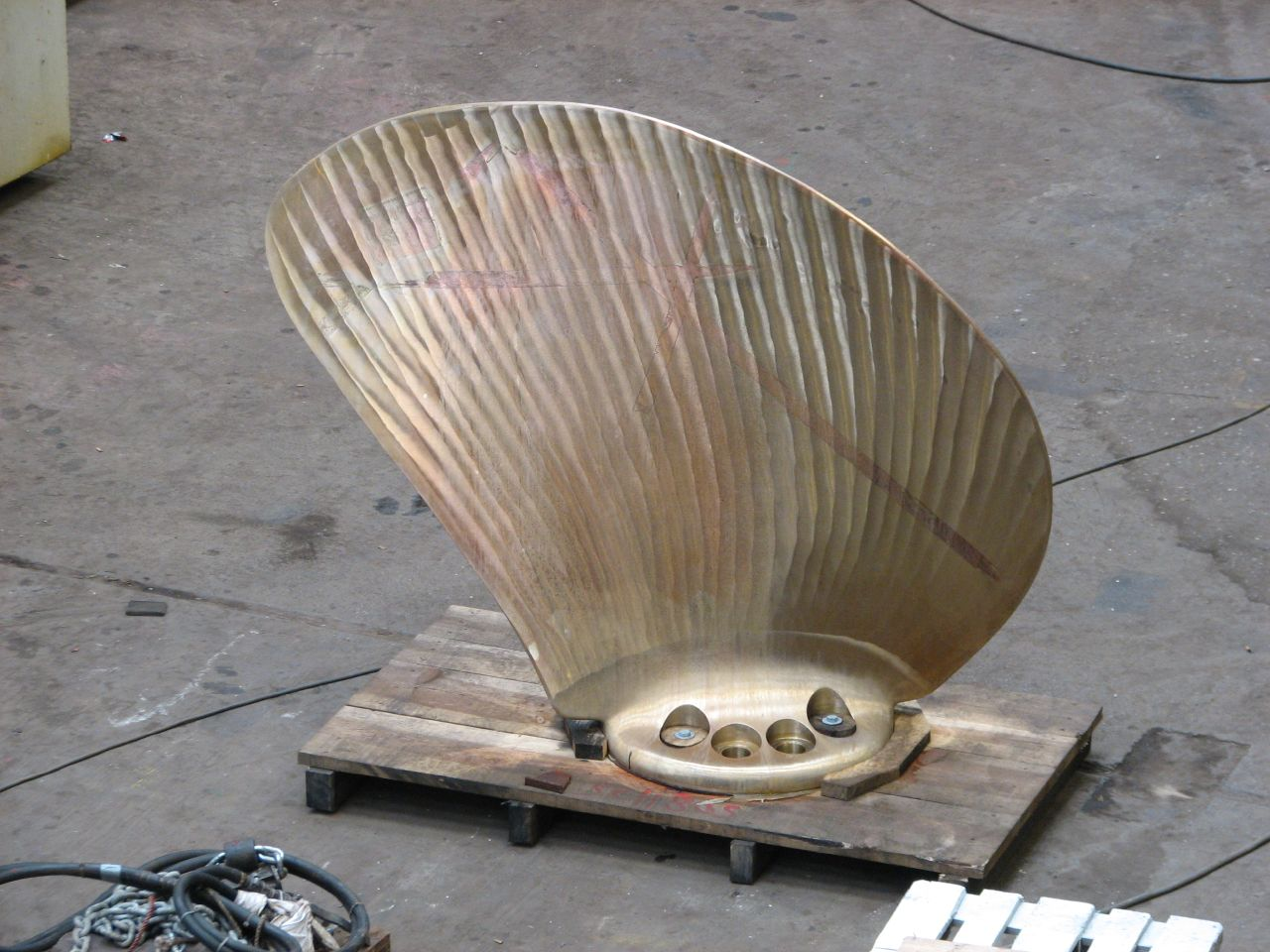 Propeller blade at Flensburger Schiffbau Gesellschaft, Germany